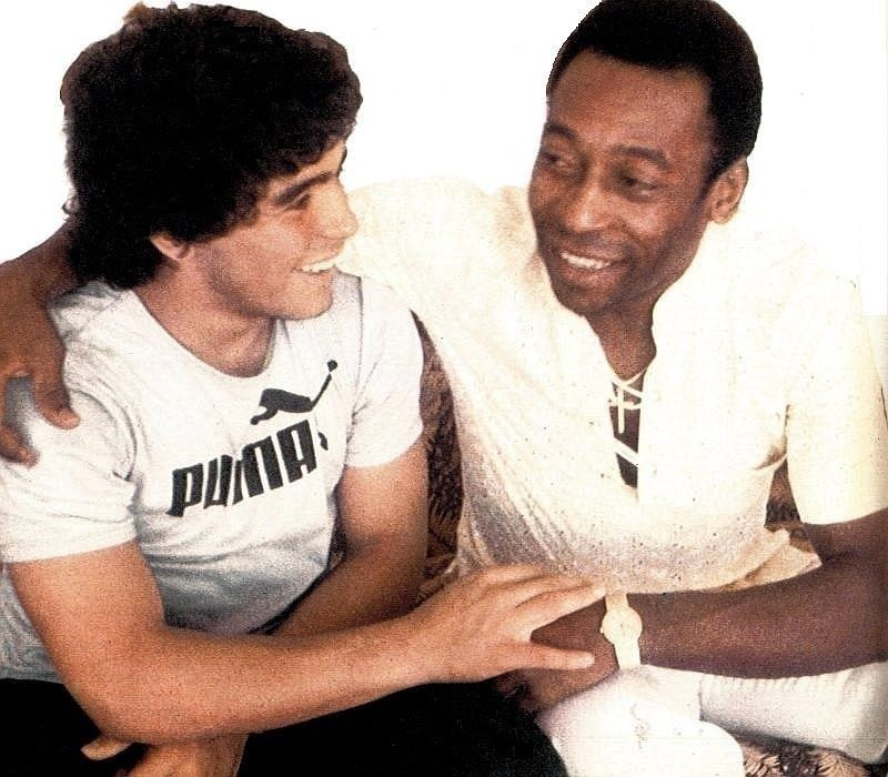 Diego Maradona and Pelé, together during a meeting for El Gráfico magazine.